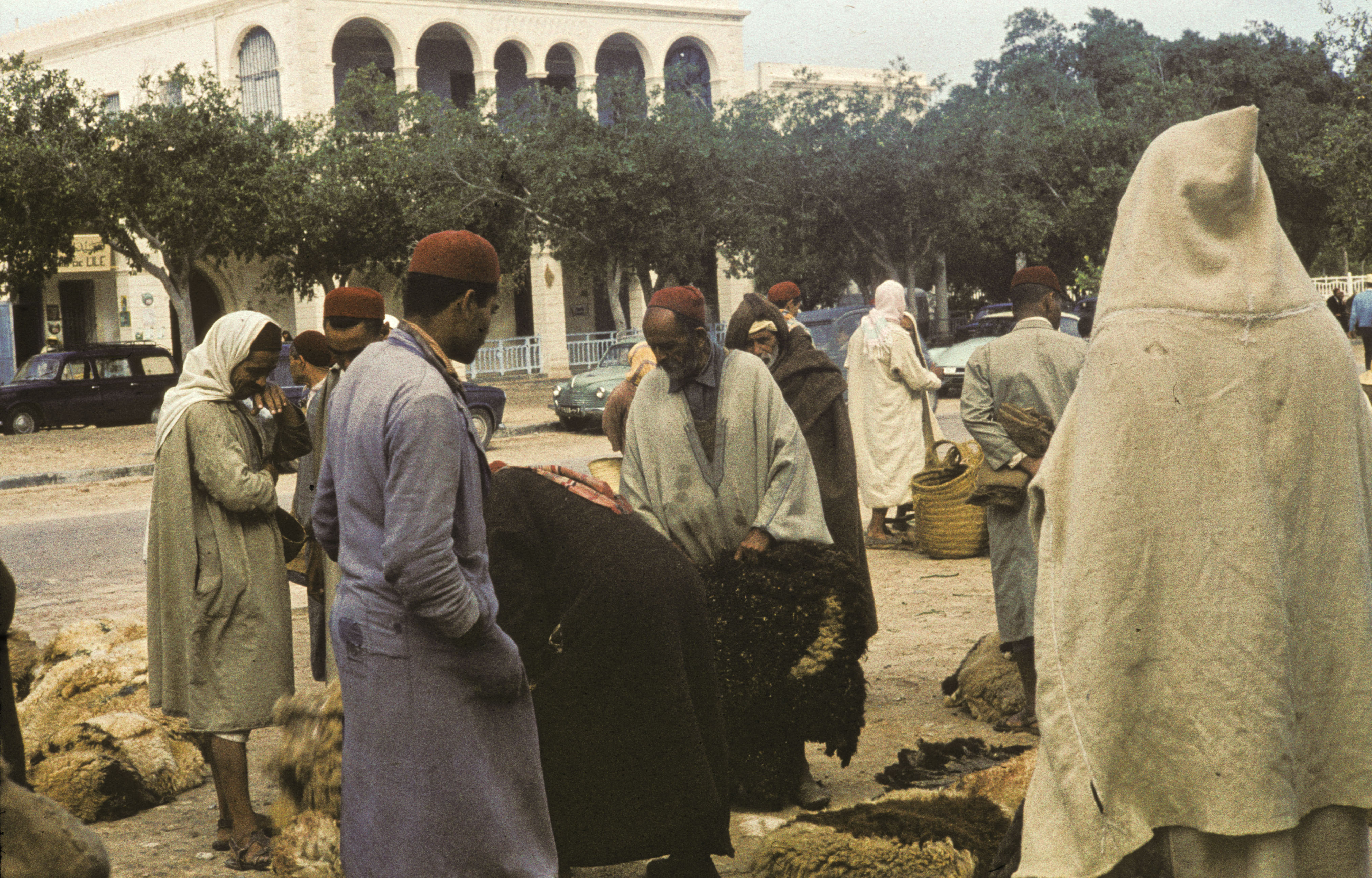 Wool trading, The actual Avenue Habib Bourguiba in Houmt Souk, Djerba, Tunisia